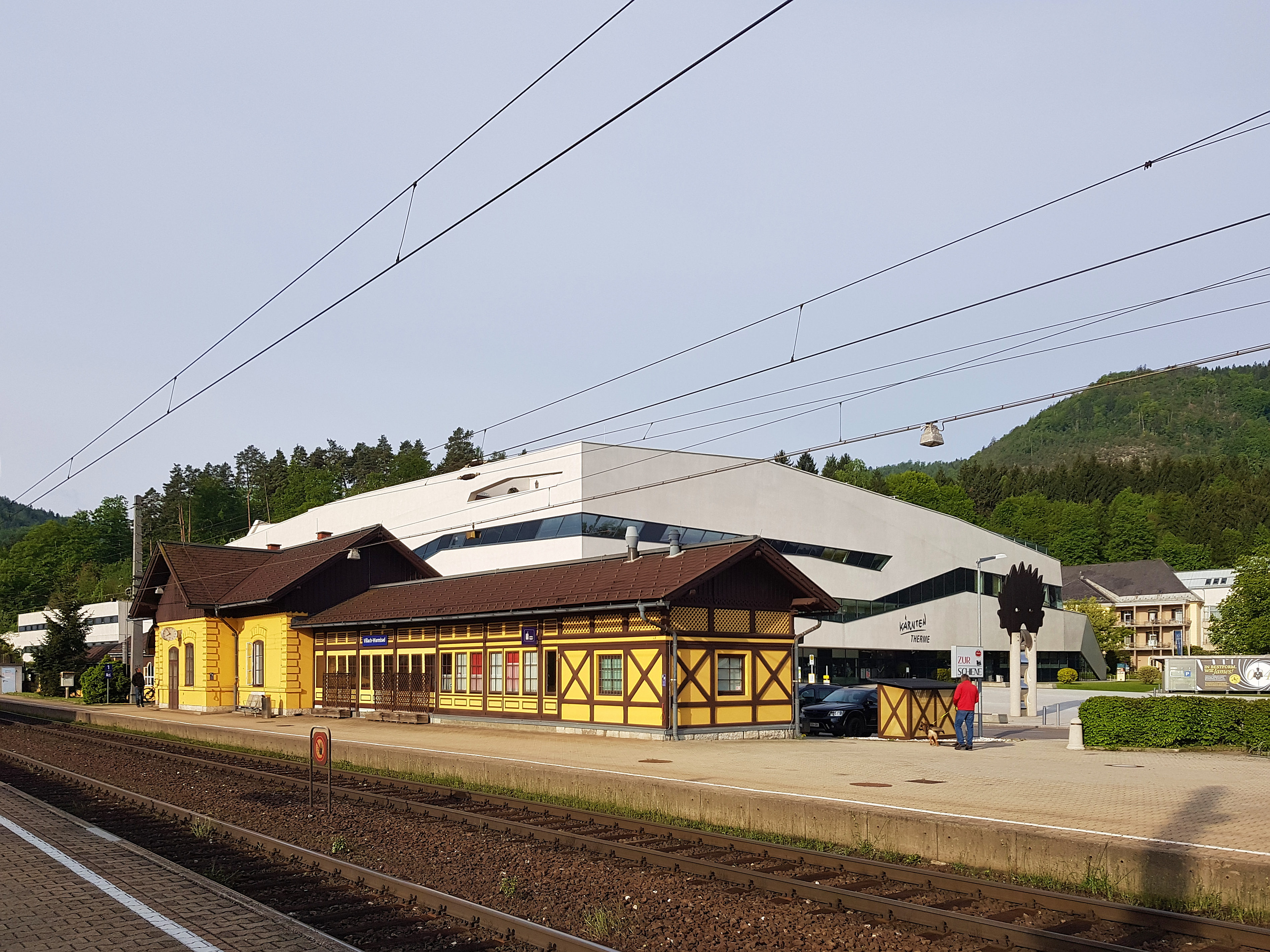 Bahnhof Villach Warmbad